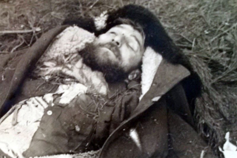 Post-mortem photo of Major Henryk Dobrzański aka "Hubal" (22 June 1897 - 30 April 1940)- Polish soldier, sportsman and partisan, the first guerrilla commander of the II WW in Europe.